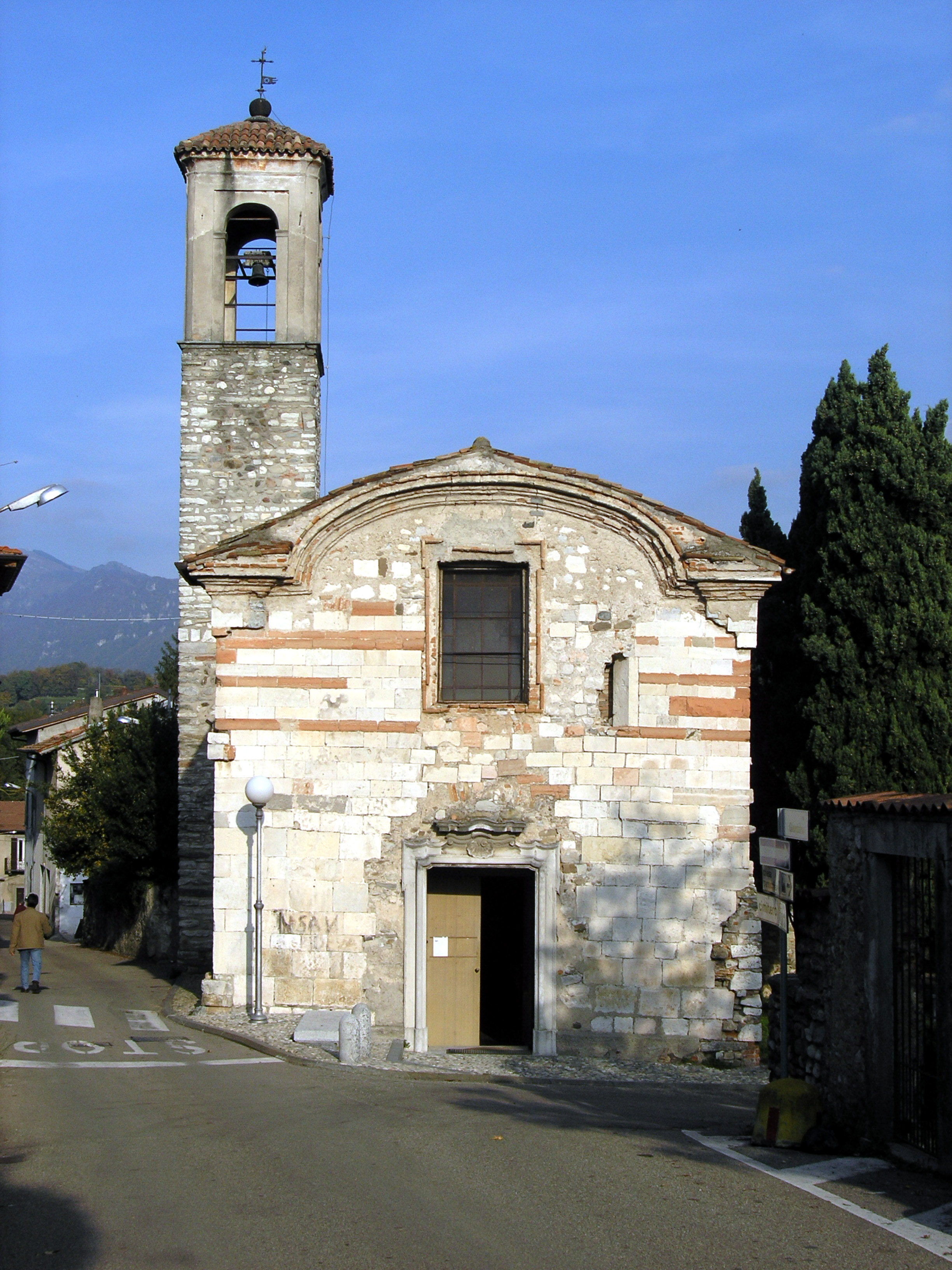 S. Materno Church